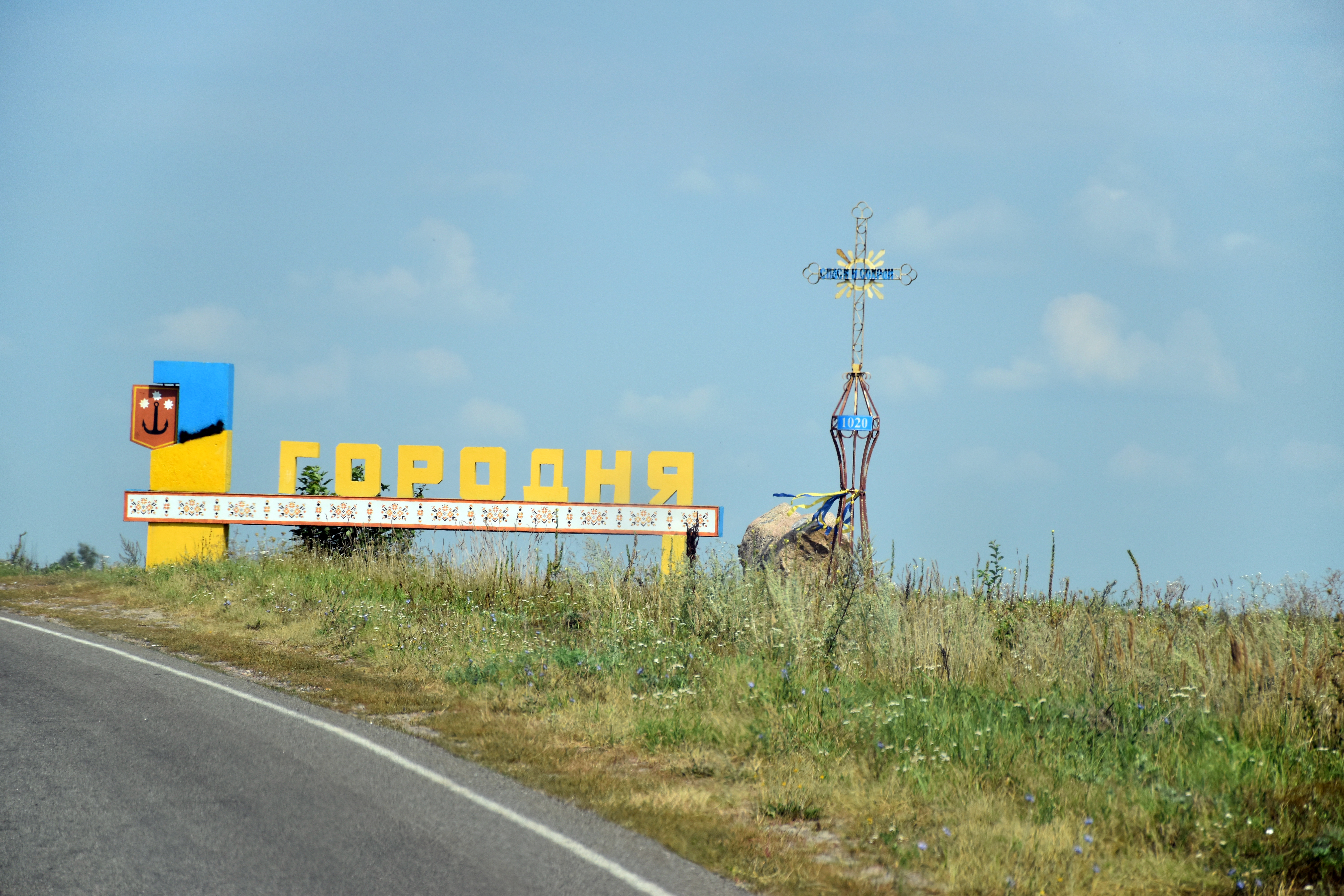 Horodnia welcome sign.